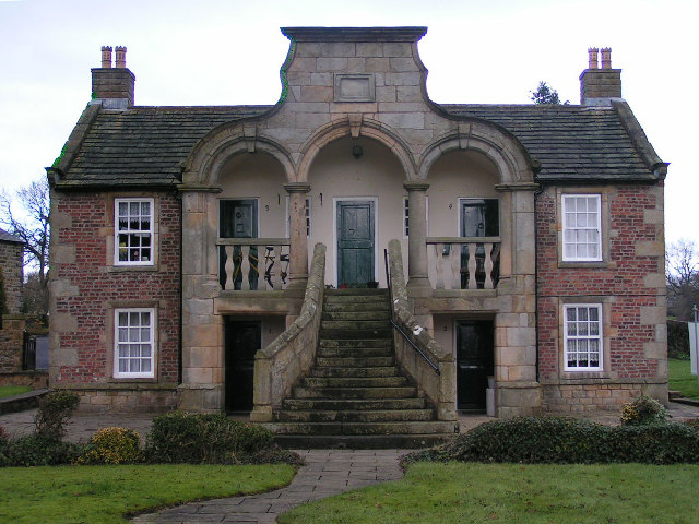 Almshouse, Stydd. Curious building near the Catholic Church, built 1728 - for more information.